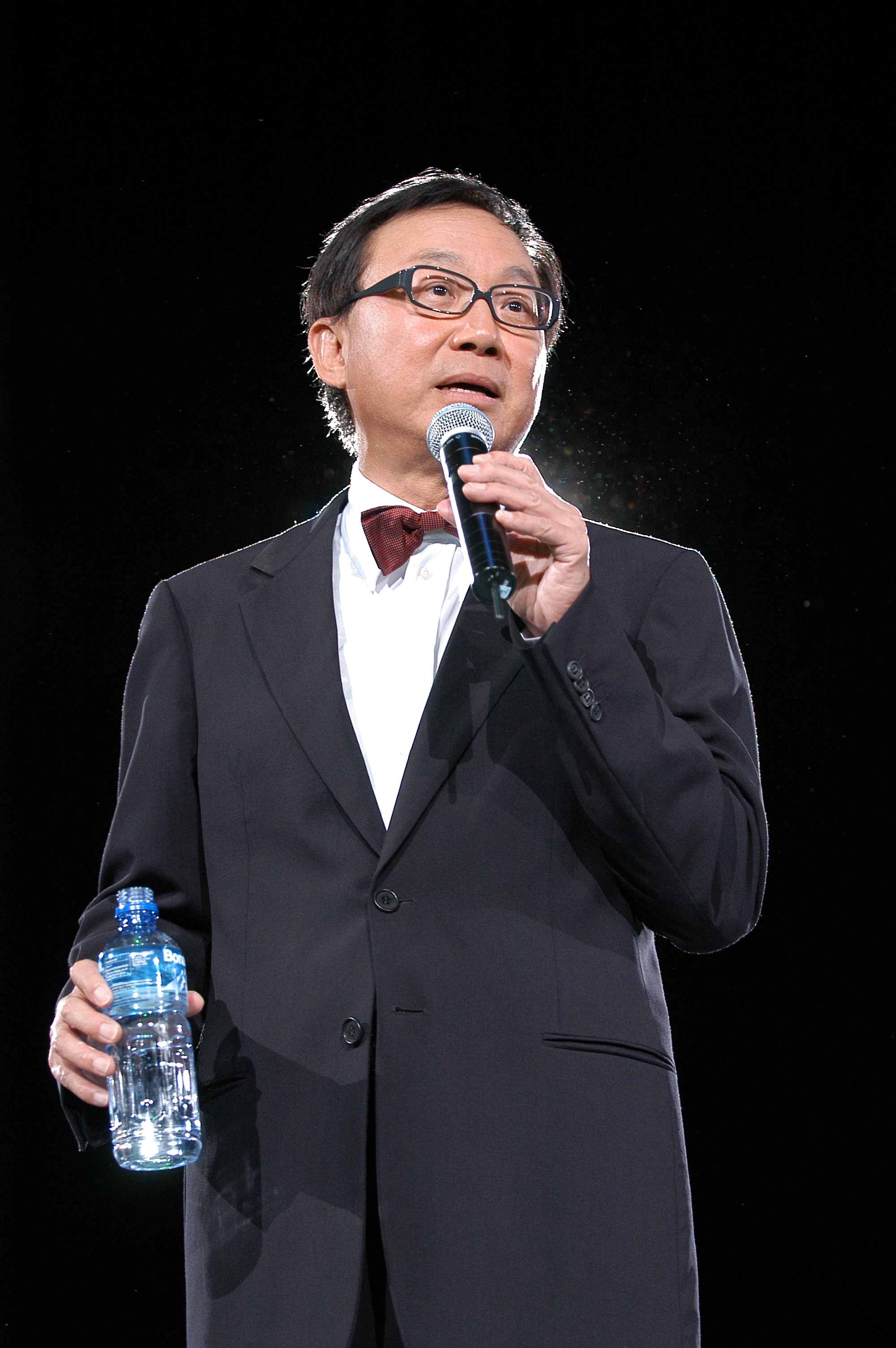 Hong Kong Comedian Michael Hui in 2005